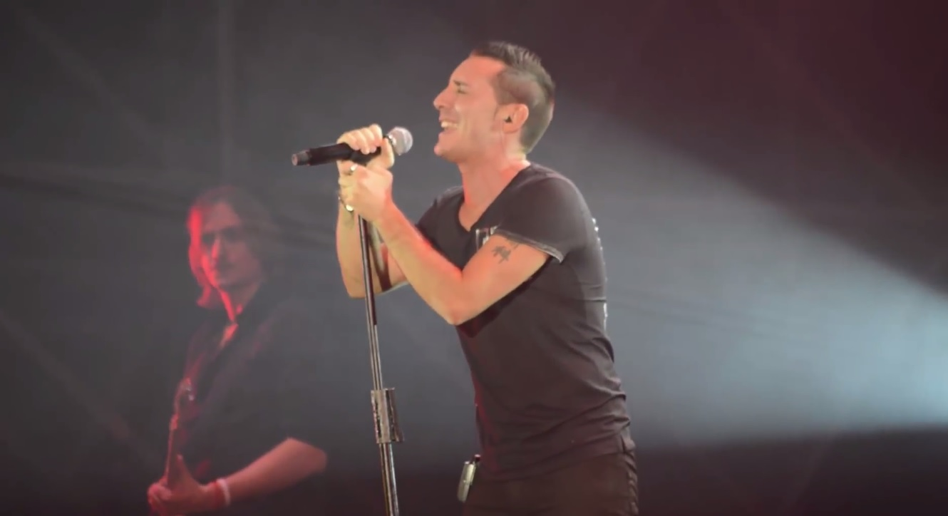 Italian band Modà in November 2014, Cagliari